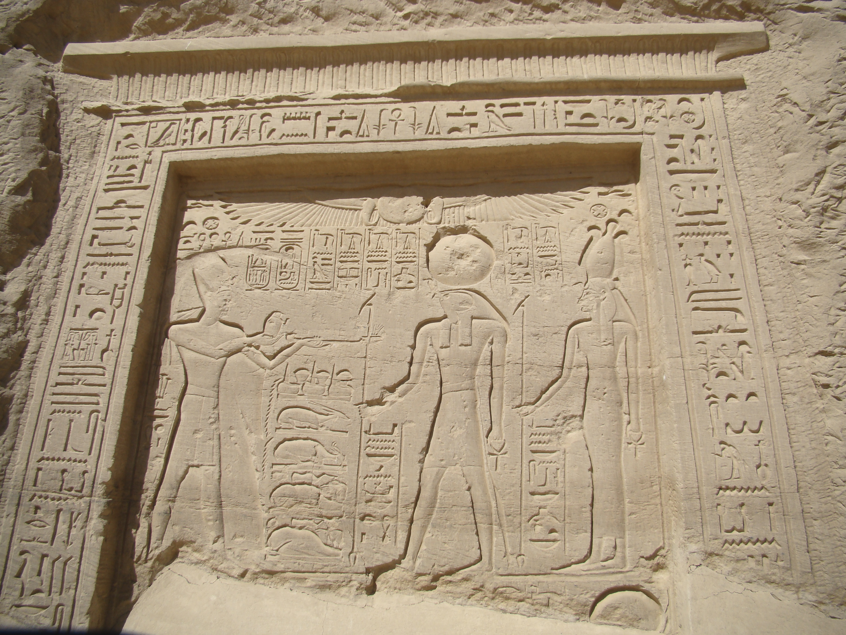 El Kab is an Upper Egyptian site on the east bank of the Nile at the mouth of Wadi Hillal, about 80 km south of Luxor, consisting of prehistoric and Pharaonic settlements, rock-cut tombs of the early 18th Dynasty (1550–1295 BC), remains of temples dating from the Early Dynastic period (3100–2686 BC) to the Ptolemaic period (332–30 BC), as well as part of the walls of a Coptic monastery. El Kab is also referred to as the ancient town of Nekheb, and this name Nekheb in turn refers to Nekhbet, the goddess depicted as a white vulture.